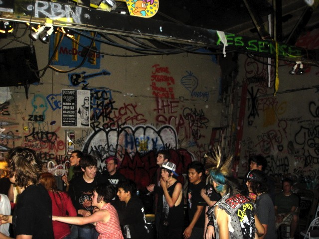 924 Gilman Street, Berkeley, California